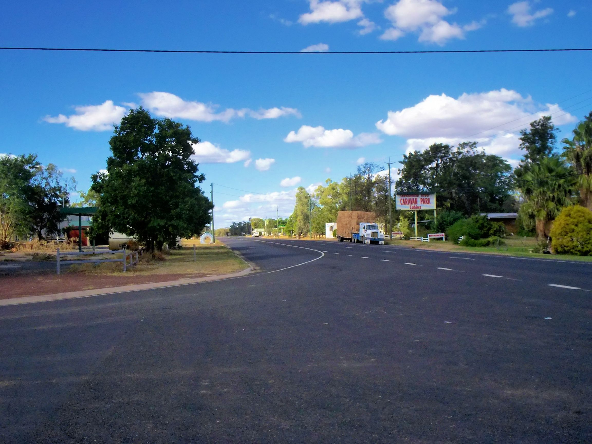 The Leichhardt Highway ,passing through Condamine, Queensland. Photograph taken by myself, May 14, en:2007.